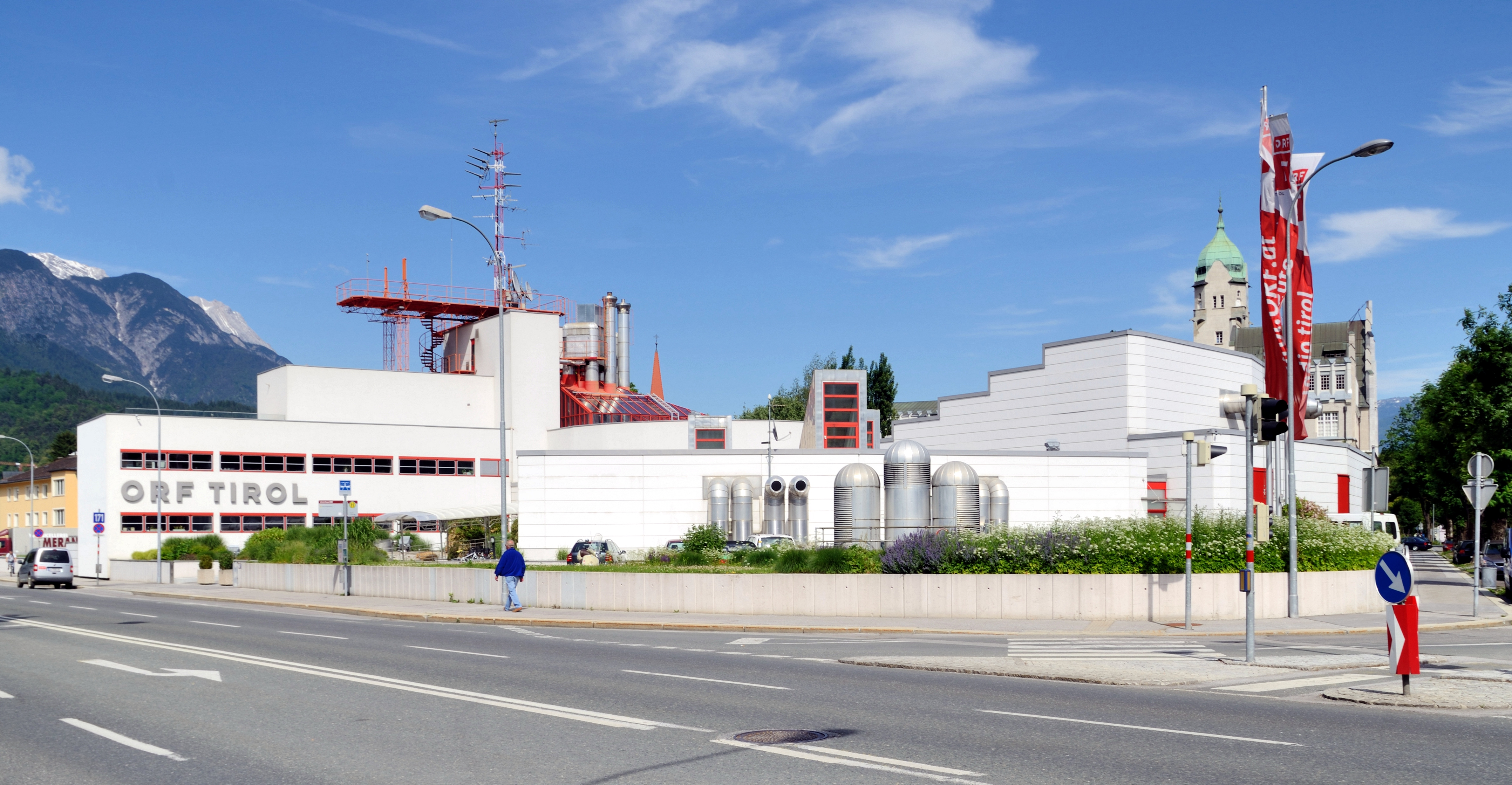 Innsbruck: ORF federal studio for Tyrol